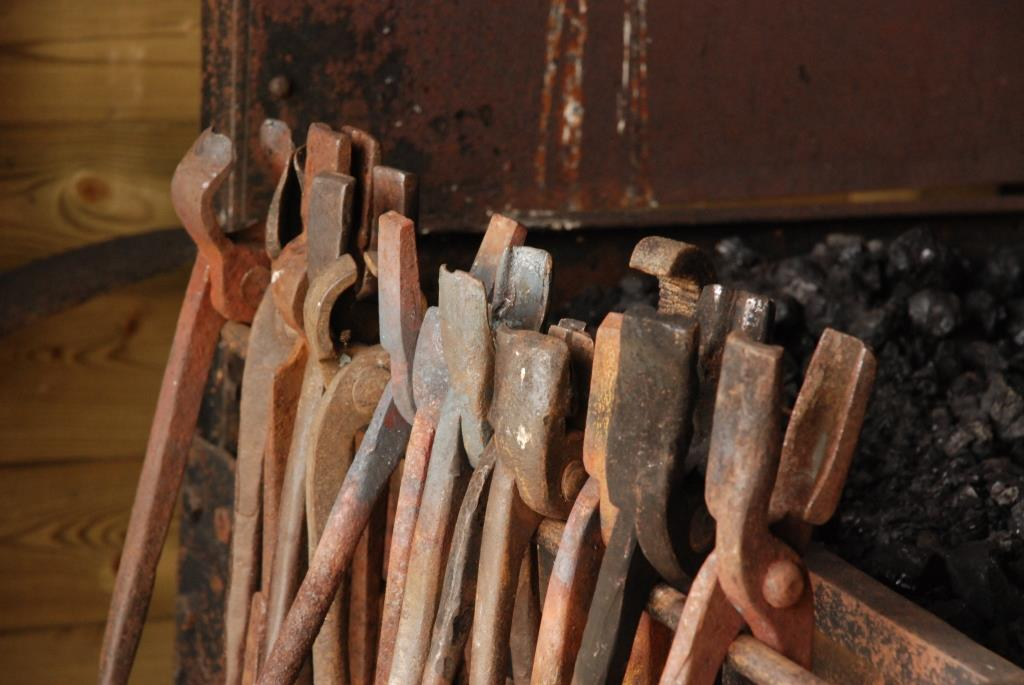 Smithing tools